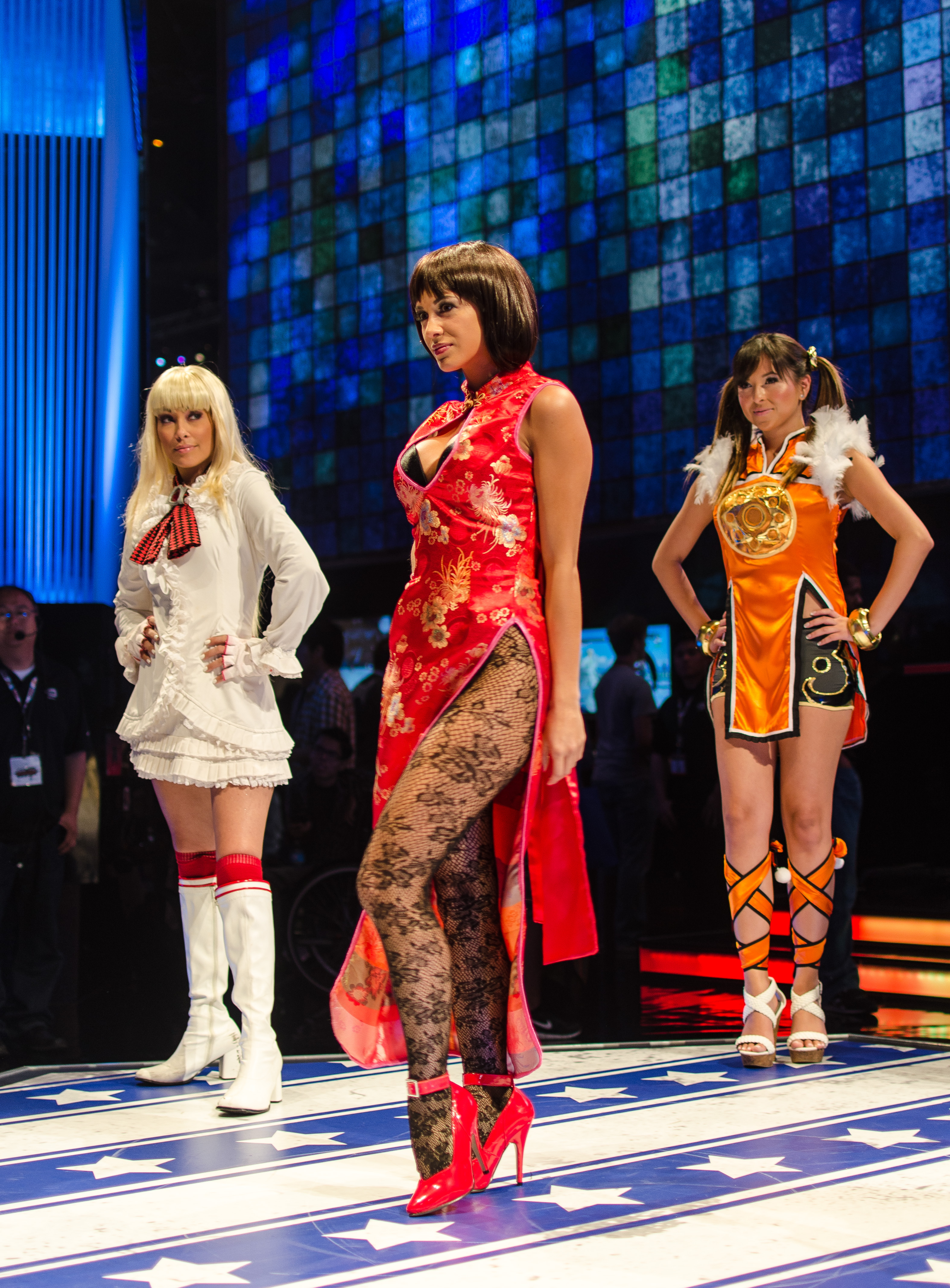 Taken on June 6, 2012 Nikon D5100 1,314 Views